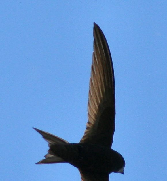 Common Swift (Apus apus) in flight.